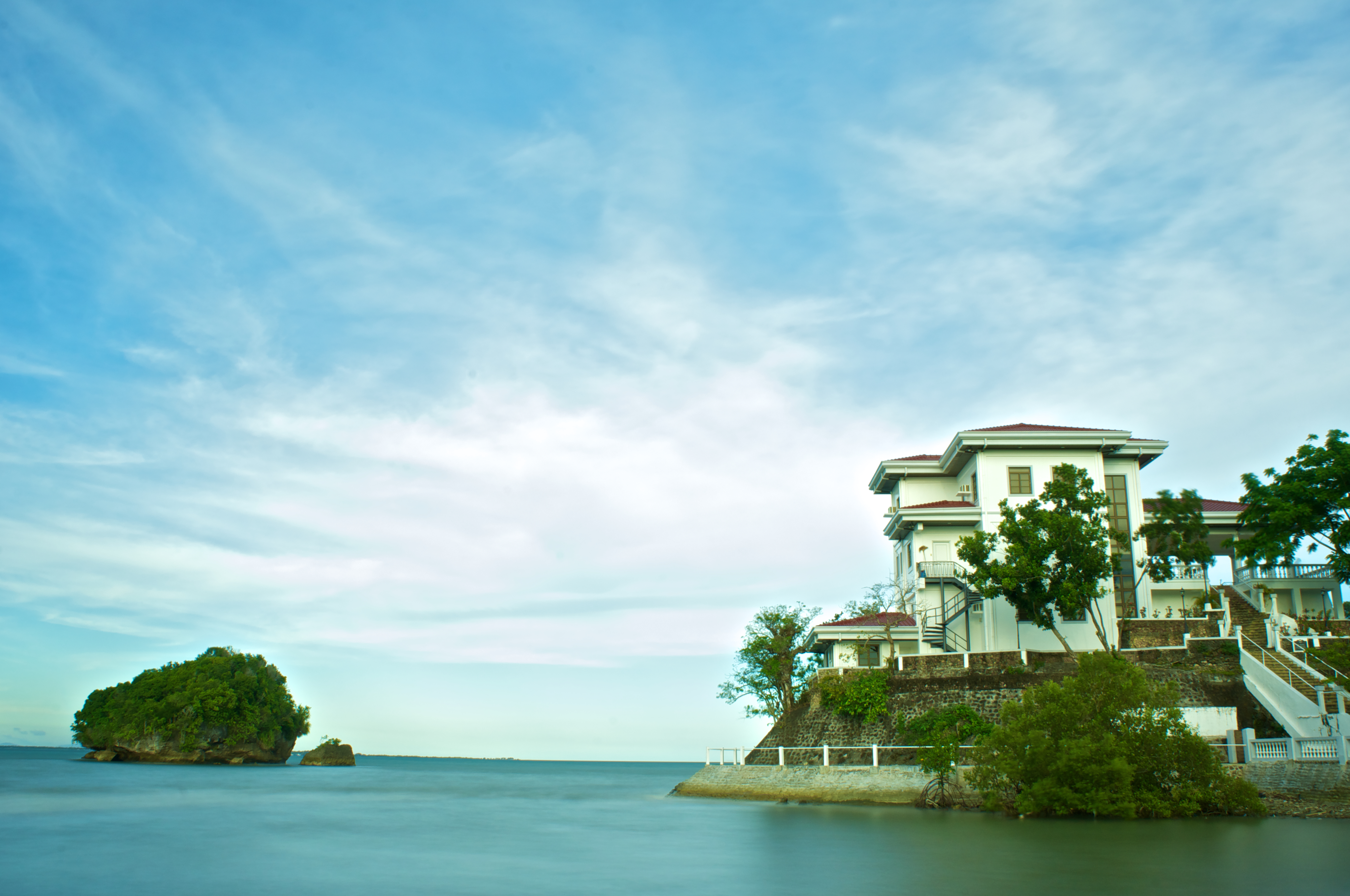 Long exposure shot of Roca Encantada House with pacific waves as foreground.